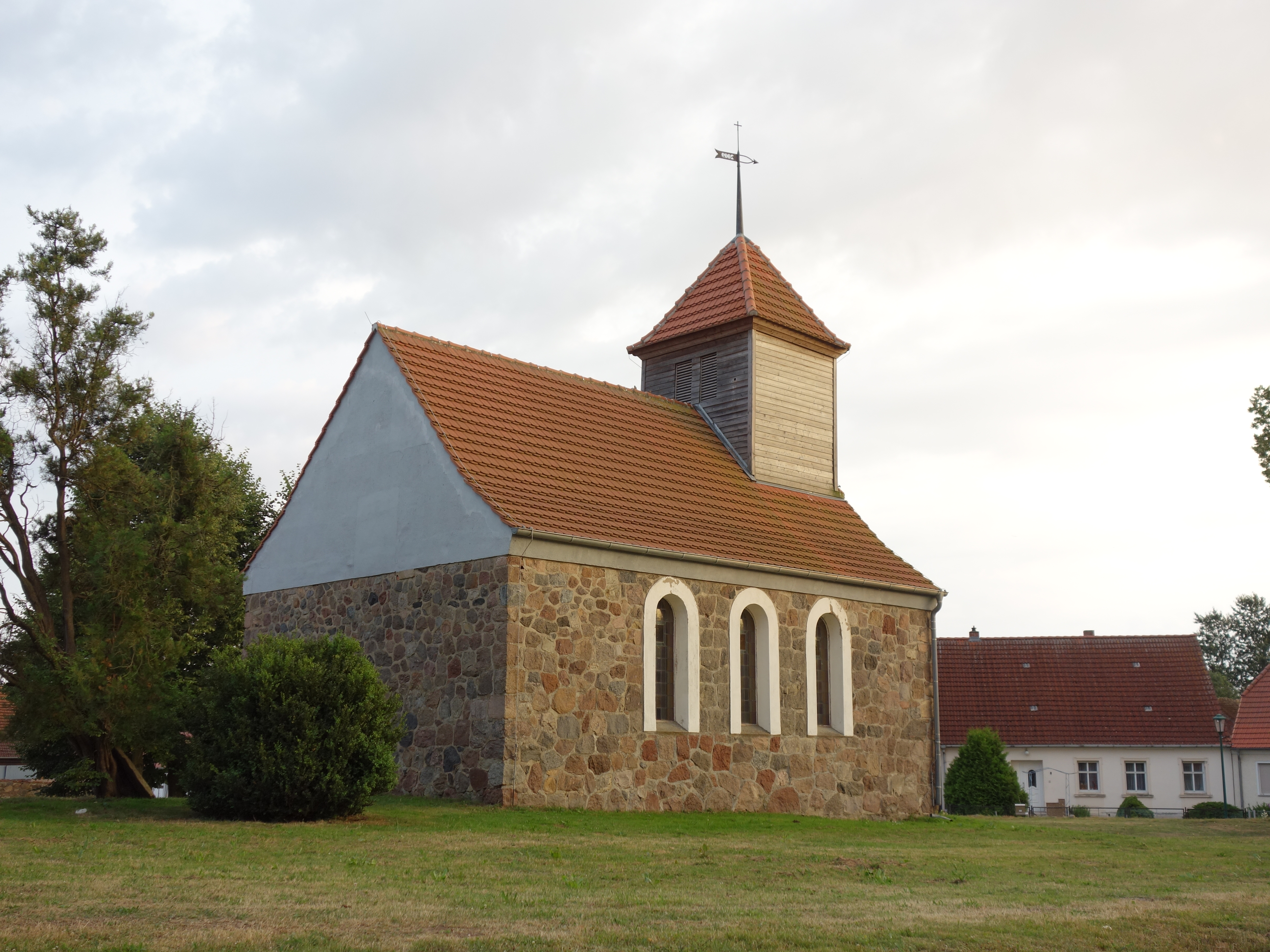 North-eastern view of church in Klein Woltersdorf, Groß Pankow municipality, Prignitz district, Brandenburg state, Germany